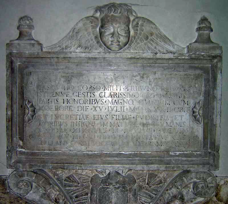 Memorial Monument to Pasquino Corso, "Miles Tribunus" (Colonel) of the Papal Corsican Guard († 1532) and to his daughter, Lucrezia († 1547), both buried in the roman basilica of San Crisogono, Rome.